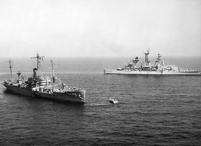 Picture taken of the damaged U.S. SIGINT ship USS Liberty (AGTR-5) which had been damaged on 8 June 1967 in the Mediterranean Sea by Israeli forces during the Six Days War. The picture was taken from the U.S. aircraft carrier USS America (CVA-66). To the right is the guided missile cruiser USS Little Rock (CLG-4), flagship of the 6th Fleet.